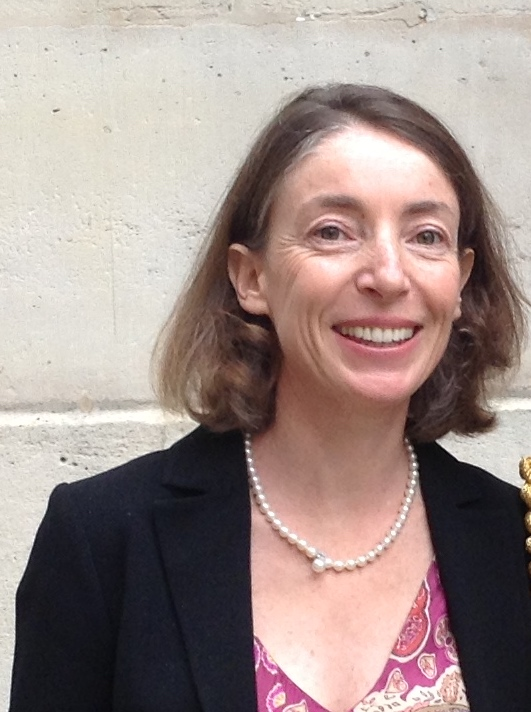 Profile picture of Emma Sky of Yale University.